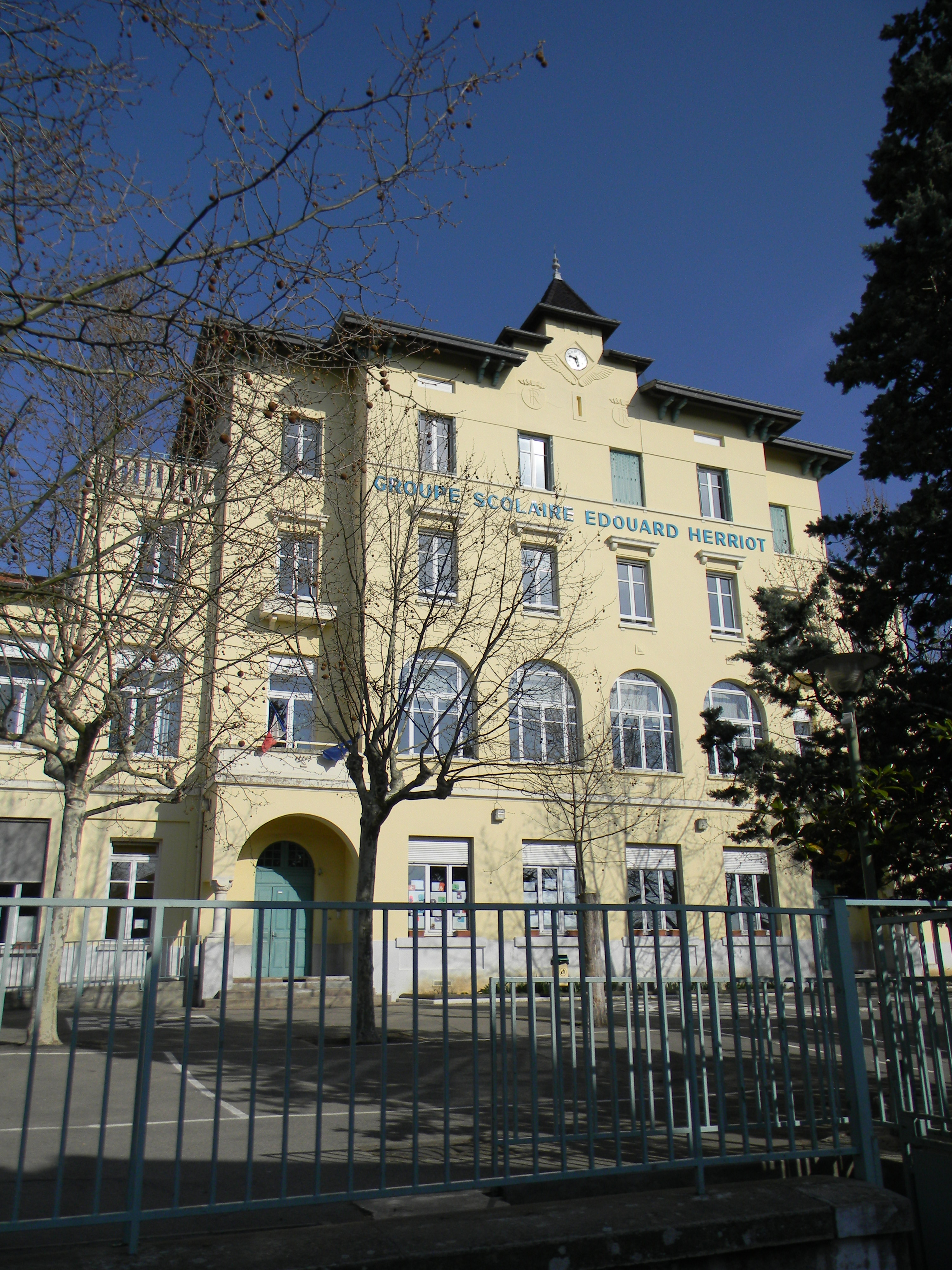 The Edouard Herriot school in Caluire-et-Cuire